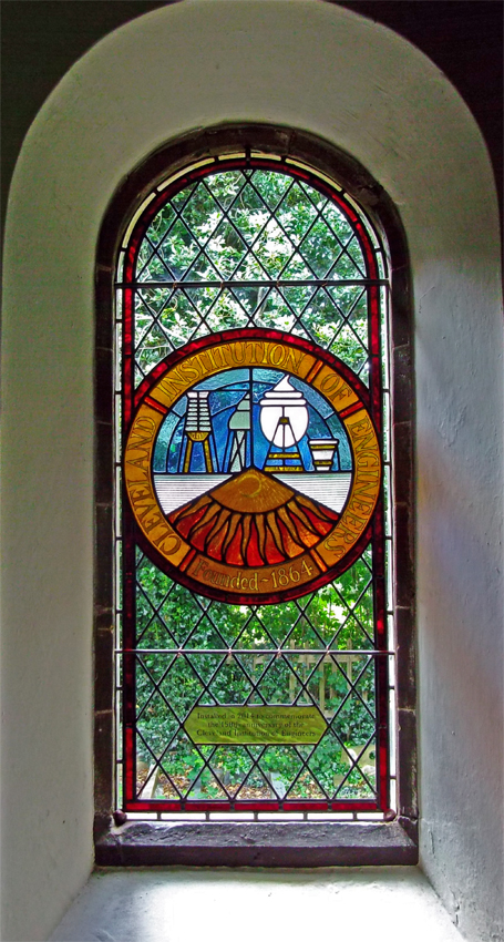 Stained glass window in St Cuthbert's Church, Marton, dedicated to the 150th anniversary of the CIE.